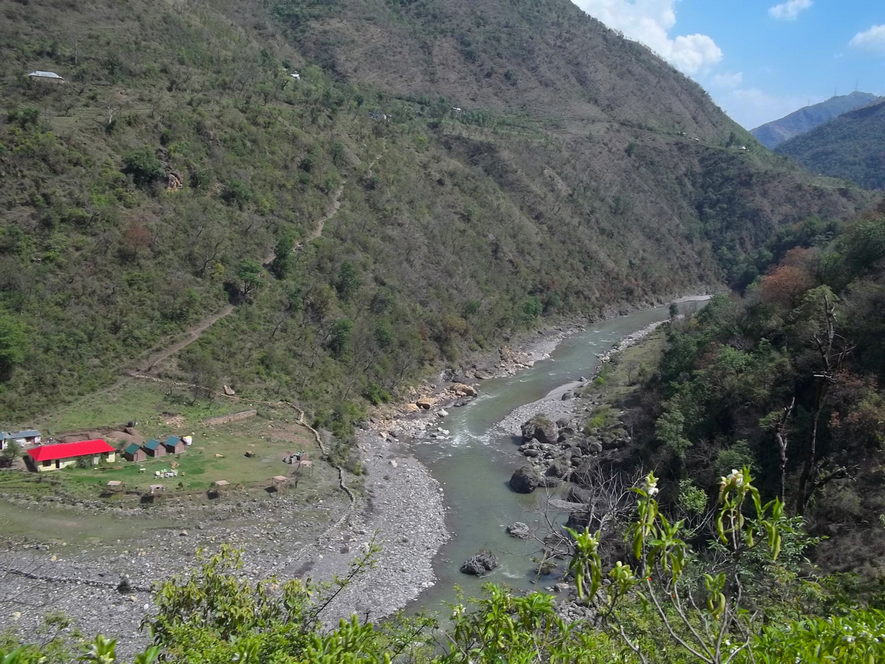 Giri Camp is a base camp in Himachal Pradesh, India